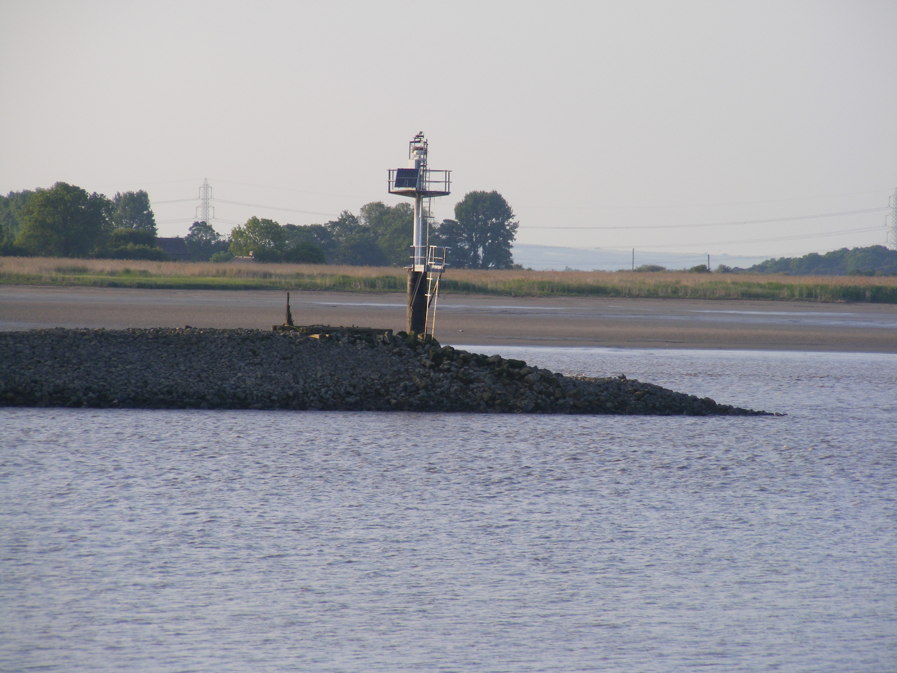 Apex Light at Trent Falls (photographed in 2010). The more modern installation (taken in 2010).